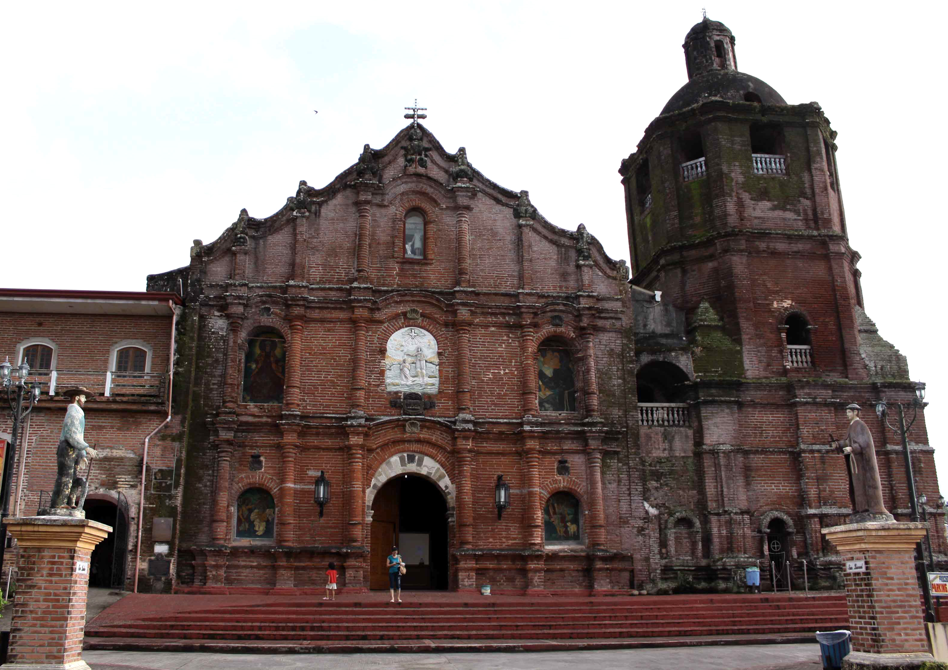 Facade of the Church of Liliw